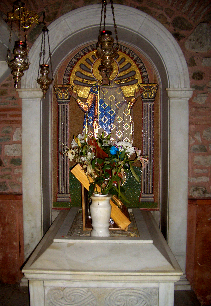 Church of Saint Demetrius Patron Saint of Thessaloniki. Mosaic above the Cenotaph of Saint Demetrius.